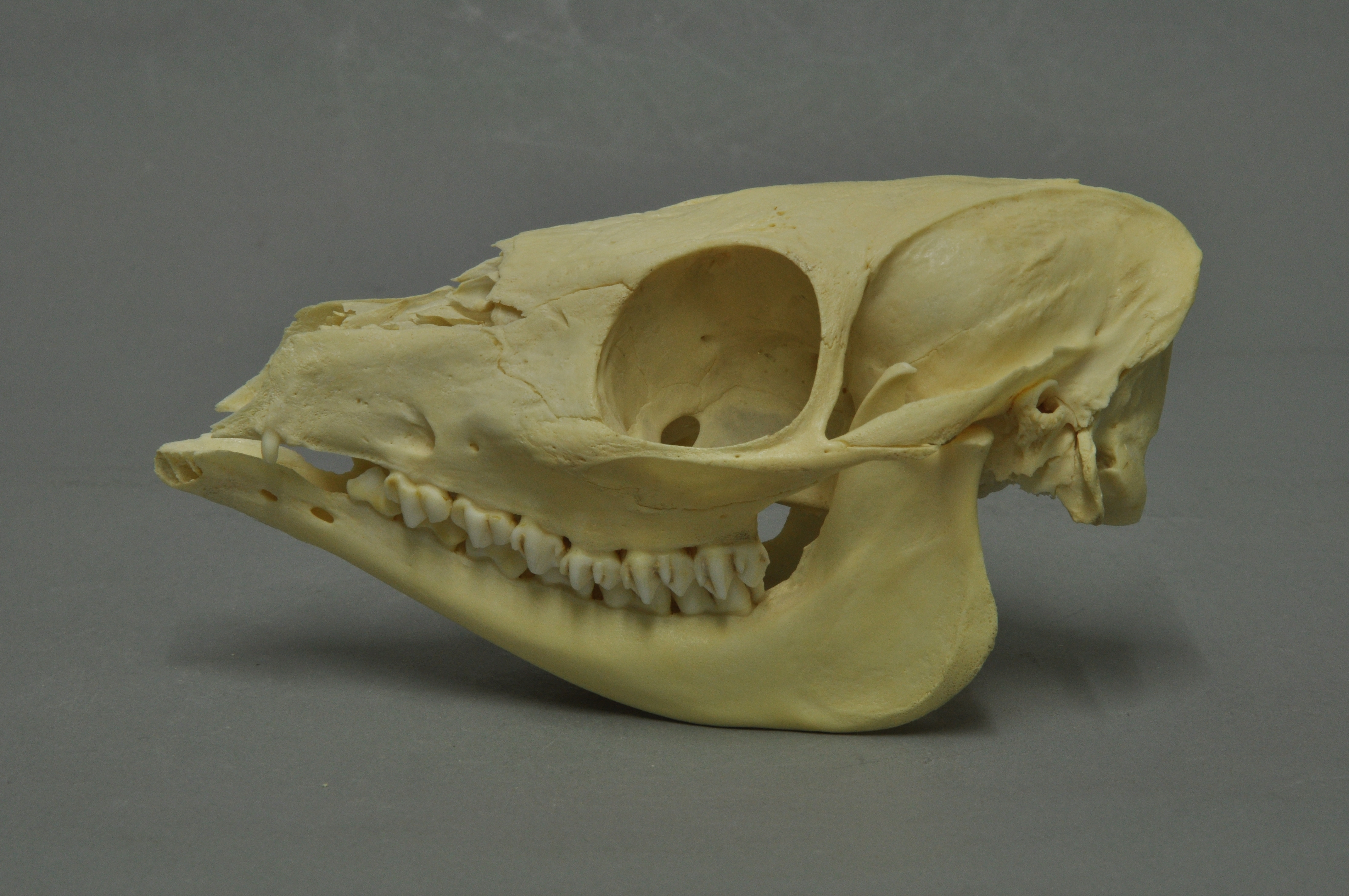 Water chevrotain Hyemoschus aquaticus, skull, Coll. Museum Wiesbaden